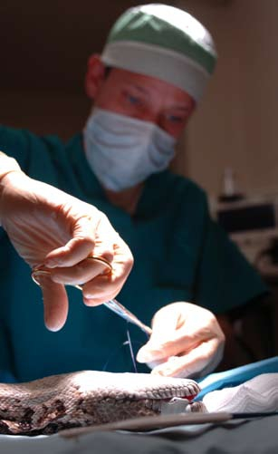 Army Capt. Stephanie Hall performs a procedure to stitch a severe cut on a cuban boa at the veterinary clinic.